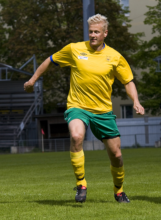 Football player Toni Kuivasto